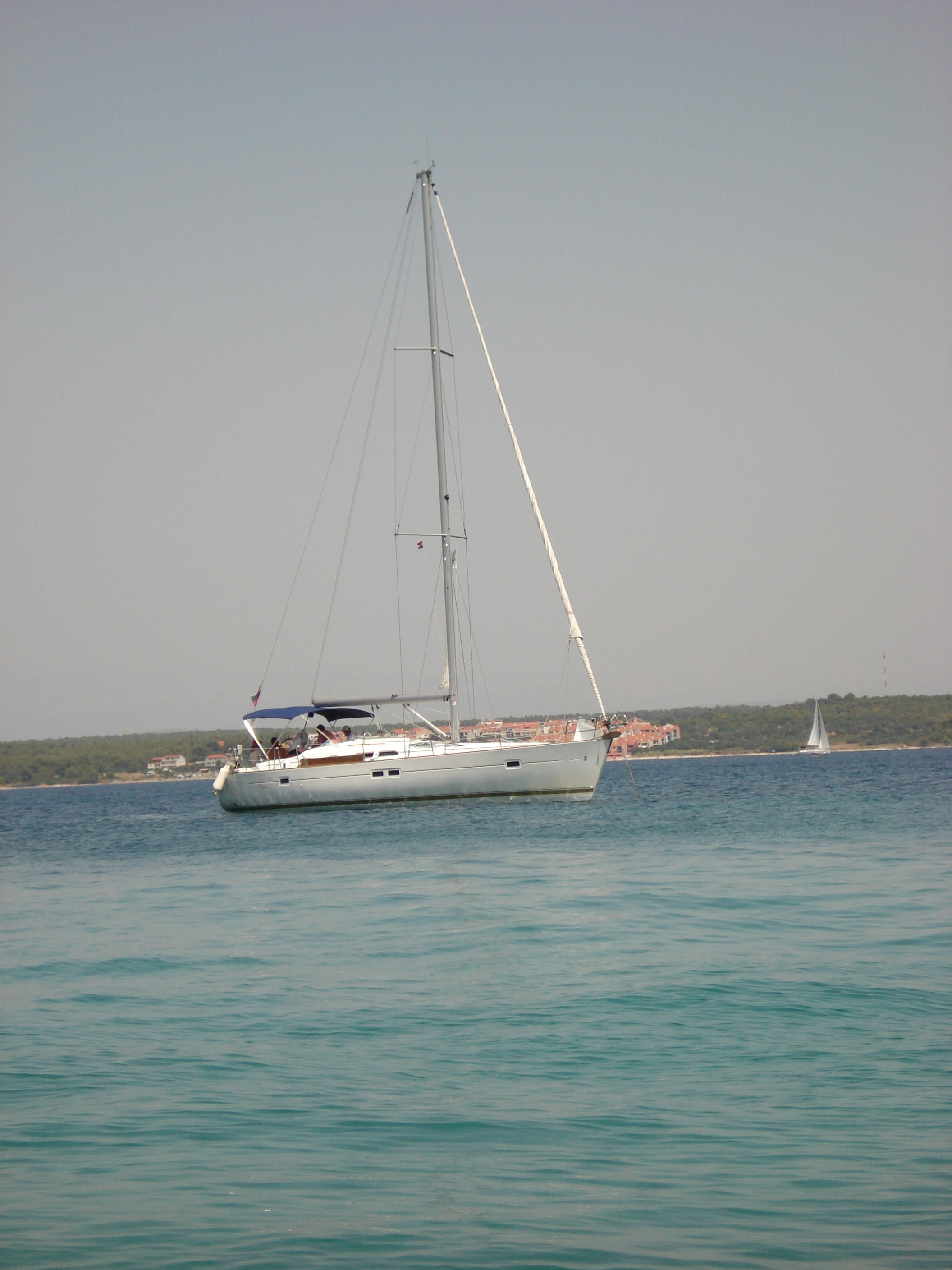 Sailboat near Biograd, Croatia